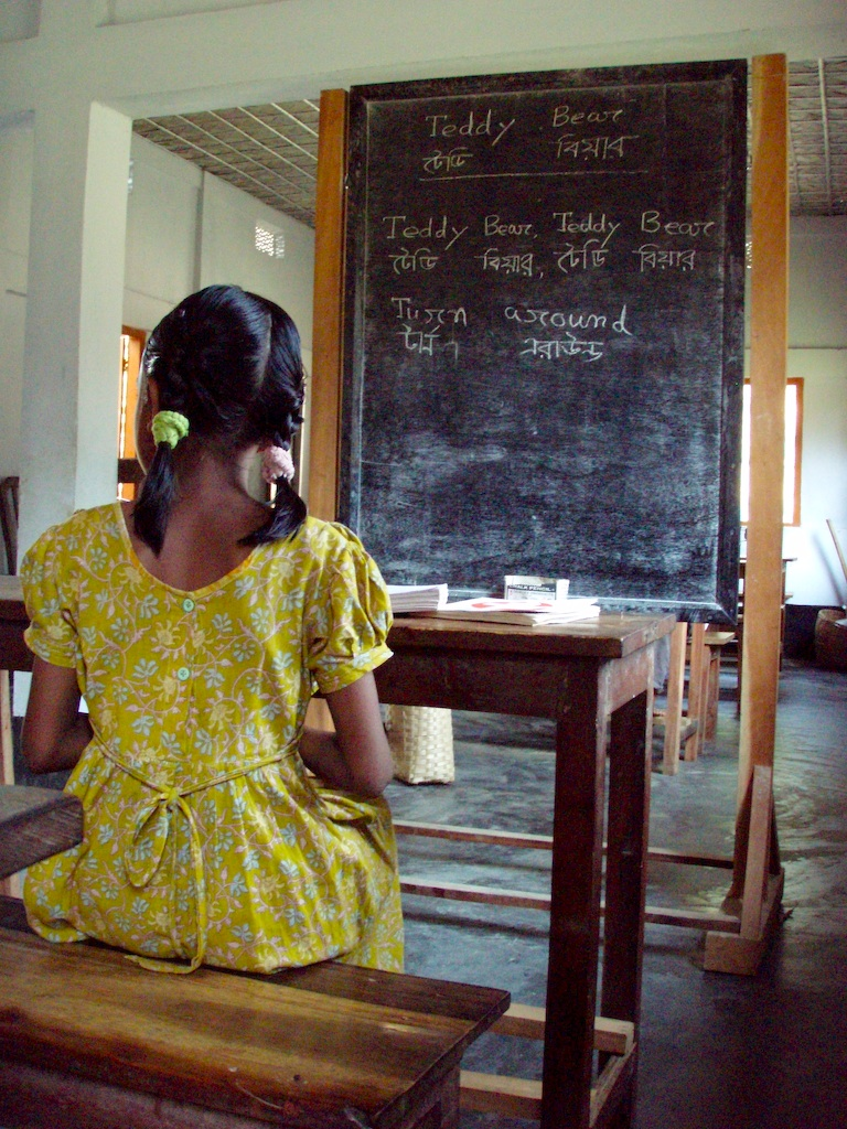 Class room with "Teddy Bear, Teddy Bear, Turn Around" written in English and Bengali on a blackboard. A girl in a yellow dress with two pigtails sits at her desk in the foreground. Sylhet, Bangladesh.Teddy Bear